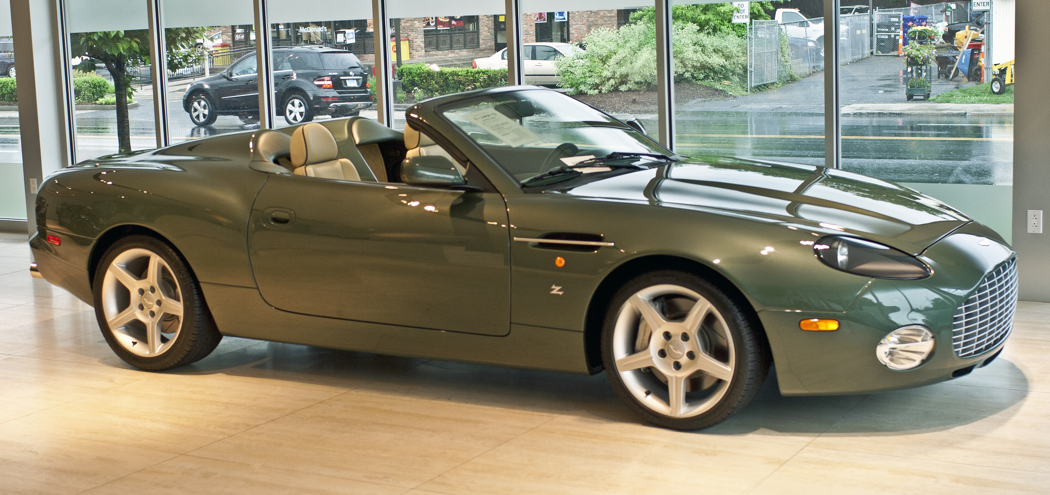 2003 Aston Martin DB AR1 by Zagato (stitch of two images)